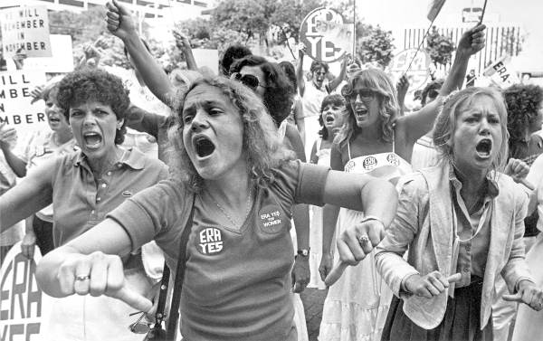 Persistent URL: Local call number: PR02866 Title: Women in favor of ERA - Tallahassee Date: ca. 1979 Physical descrip: 1 photoprint - b&w - 8 x 10 in. Series Title: Print Collections Repository: State Library and Archives of Florida 500 S. Bronough St., Tallahassee, FL, 32399-0250 USA, Contact: 850.245.6700